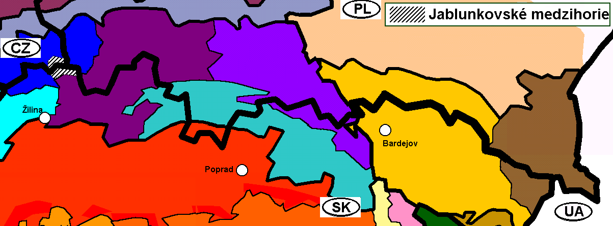 Situation of the Jablunkovské medzihorie in the Czech Republic and in Slovakia